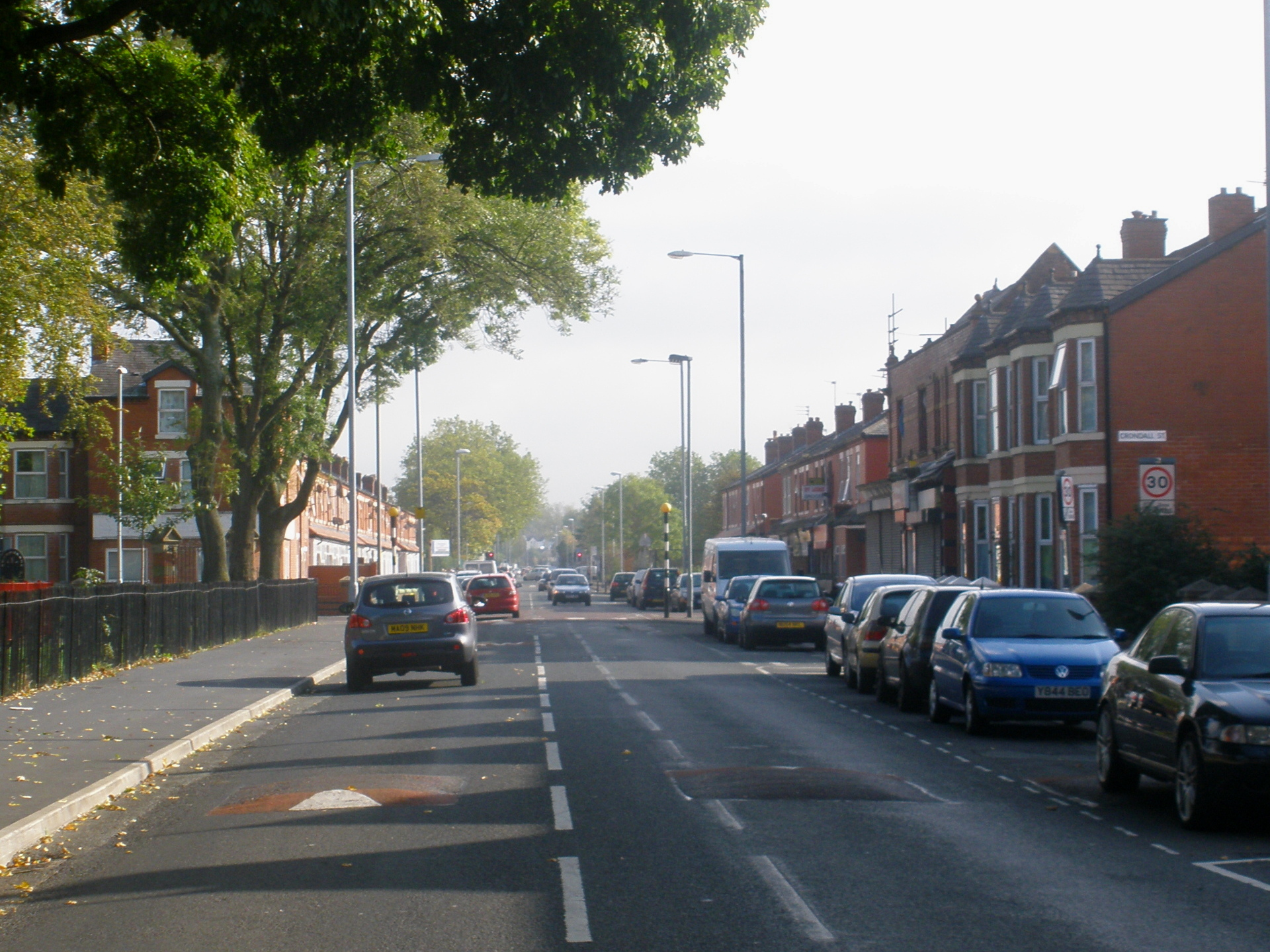 Great Western Street in Moss Side, by Millenium Park, looking east towards Rusholme